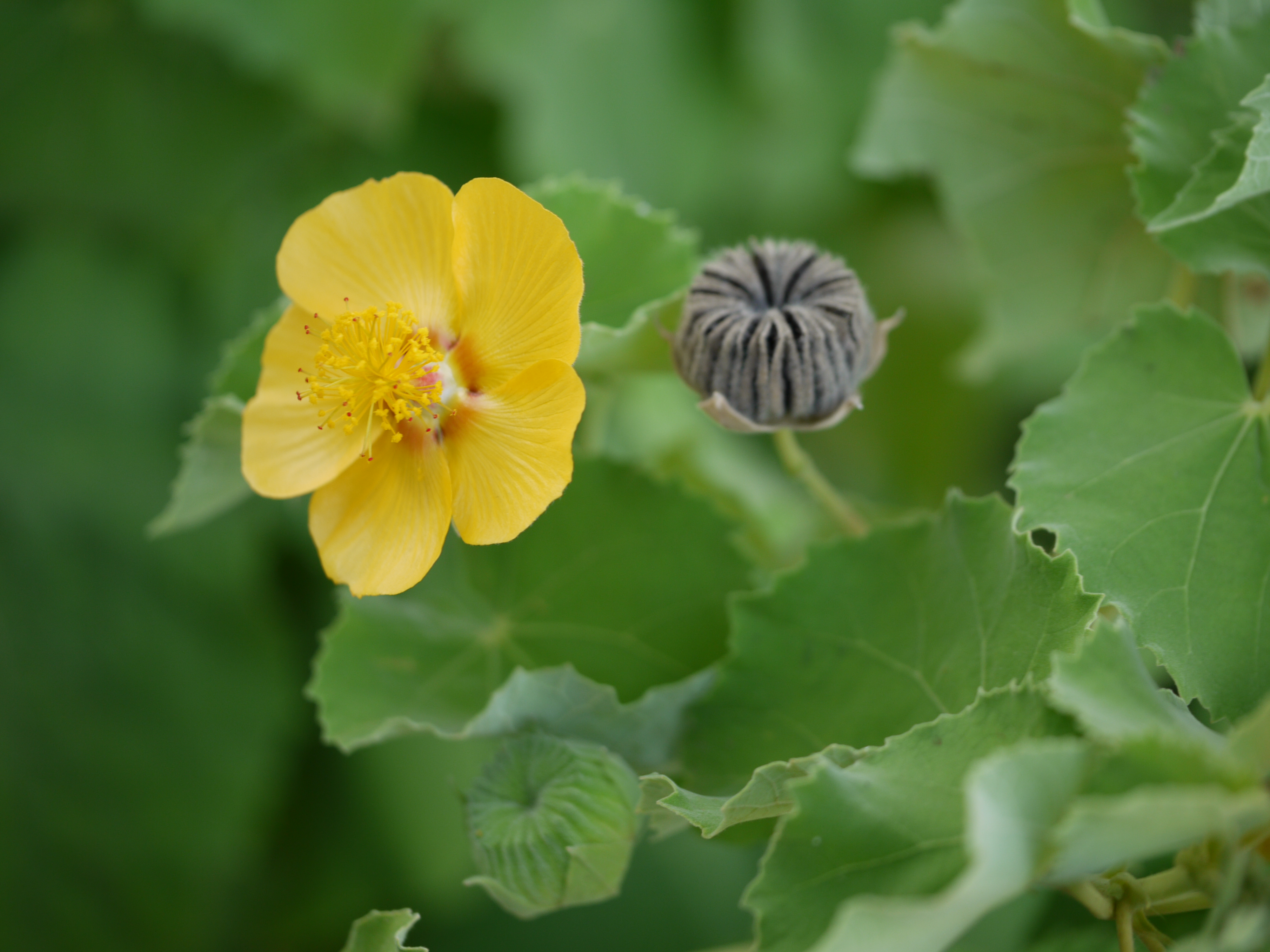 Malvaceae (mallow family) » Abutilon indicum a-BEW-tih-lon -- from the Arabic word for a mallow-like plant IN-dih-kum or in-DEE-kum -- of or from India commonly known as: Chinese bell-flowers, common evening mallow, country mallow, flowering maples, Indian abutilon • Bengali: পোটারী potari • Gujarati: કાંસકી kaansaki • Hindi: अतिबल atibal, कंघी kanghi • Kannada: ತುಥ್ಥಿ ಗಿಡ tuththi gida • Konkani: पेटारी petari • Malayalam: വെള്ളൂരം velluram • Marathi: कंगा kanga, कासली kasali, मुद्रा mudra, पेटारी petari • Oriya: biley phulo • Punjabi: ਪਤਾਕਾ pataka • Sanskrit: अतिबल atibala, कङ्कटिका kankatikaa, ऋष्यप्रोक्ता rishyaproktaa • Tamil: பெருந்துத்தி peru-n-tutti • Telugu: నూగుబెండ nugubenda, తుతిరిబెండ tuteribenda Native to: s e Asia; naturalized pantropically References: Flowers of India • ENVIS - FRLHT • Wikipedia • PIER • DDSA